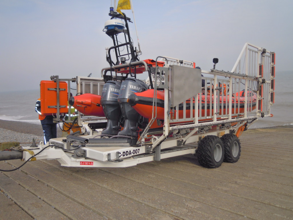 Talus Atlantic 85 DO-DO launch carriage. This one is stationed at Sheringham